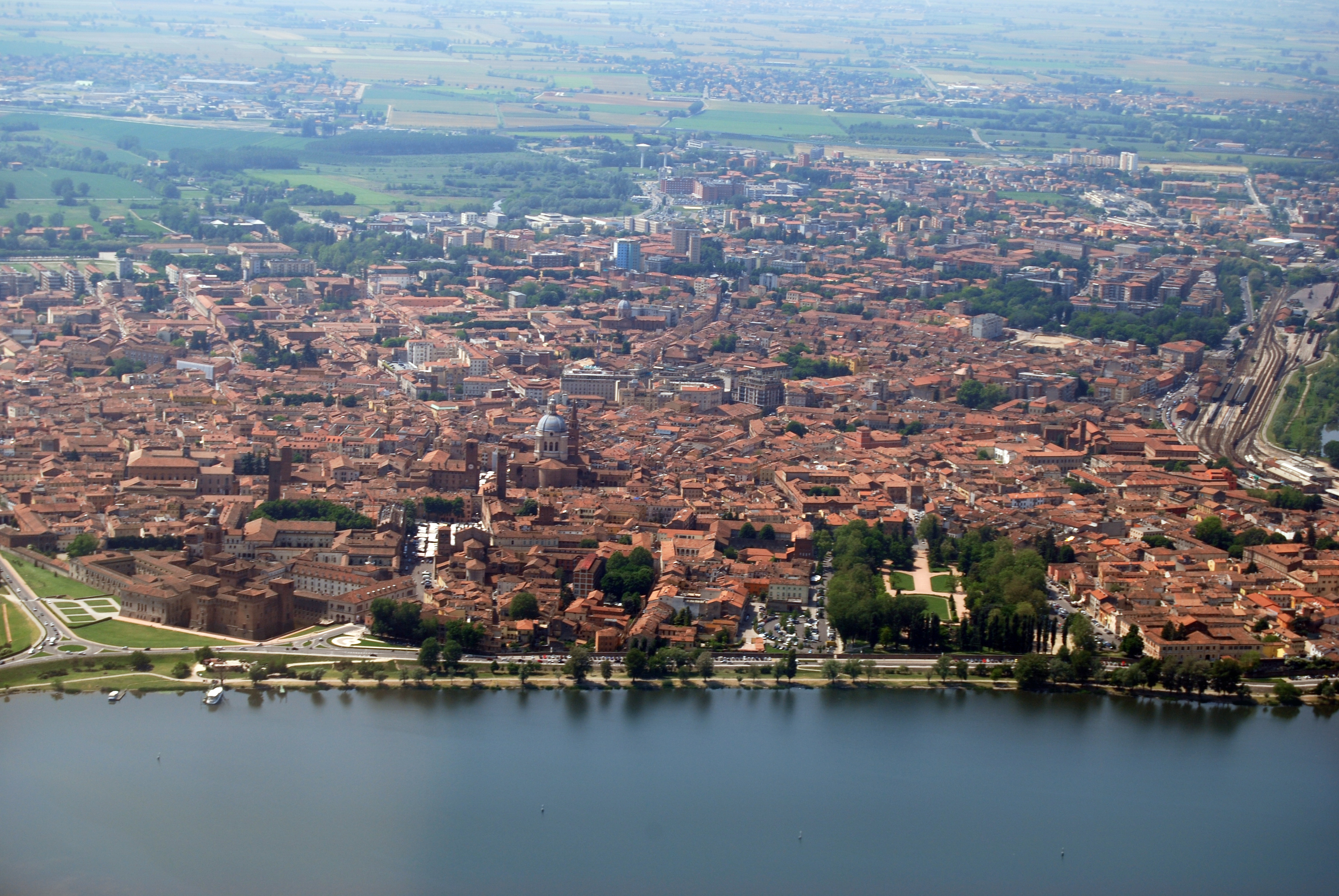 Aerial view of Mantova